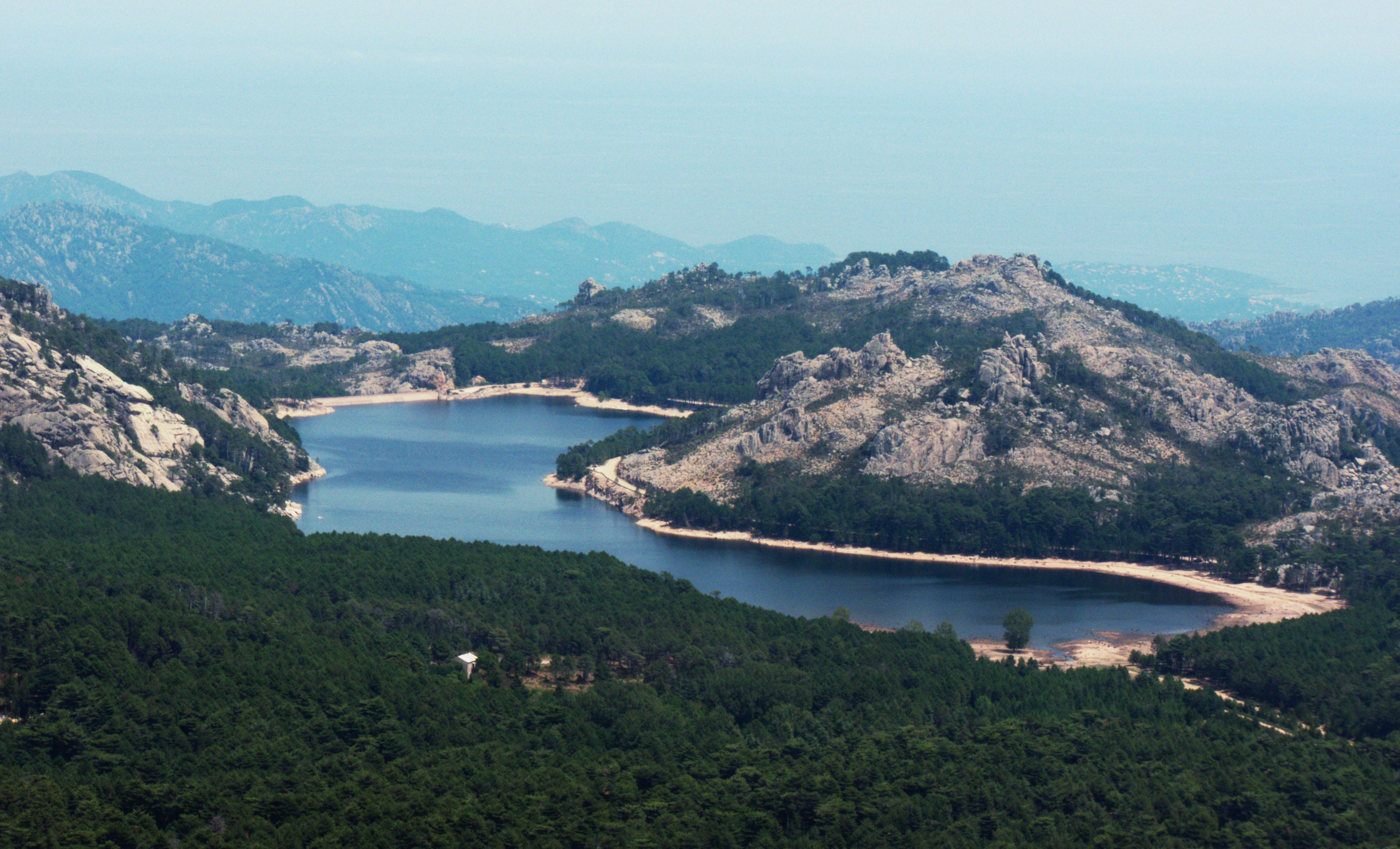 L'Ospedale lake (Corse-du-Sud), as seen from the Punta di a Vacca Morta (1314 m).